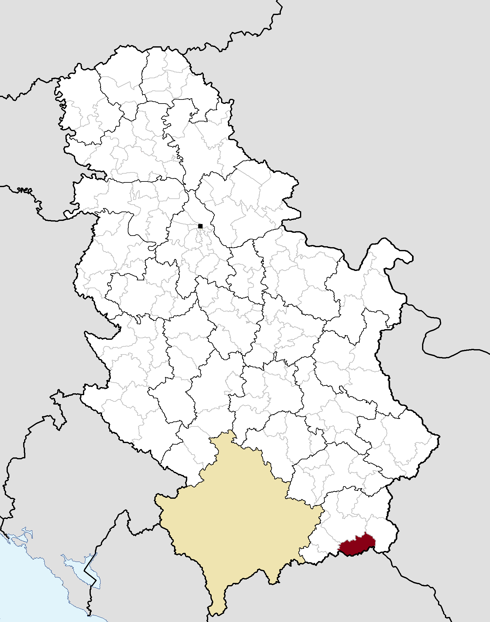 Municipal location in Serbia